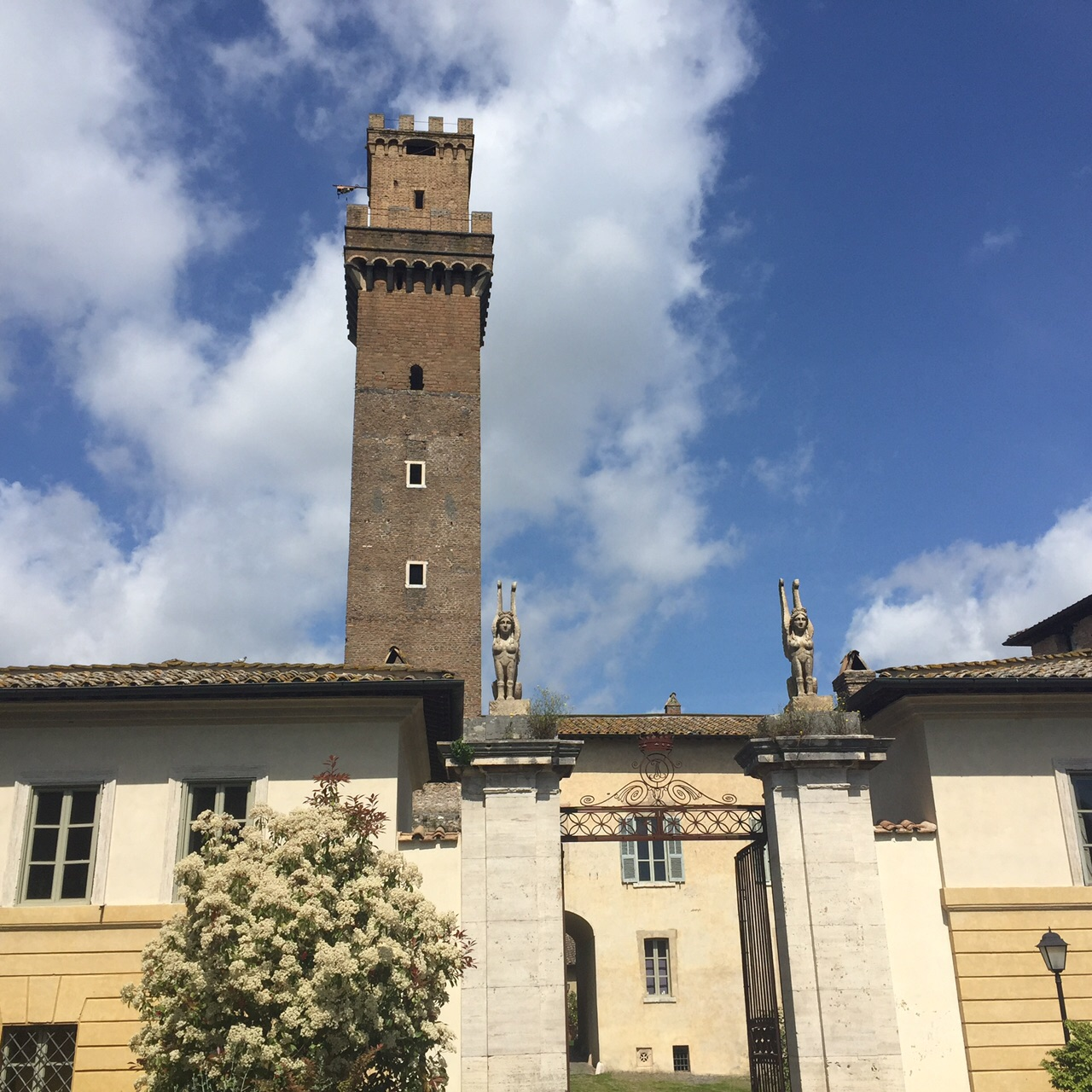 Cecchignola Castle, entrance from East